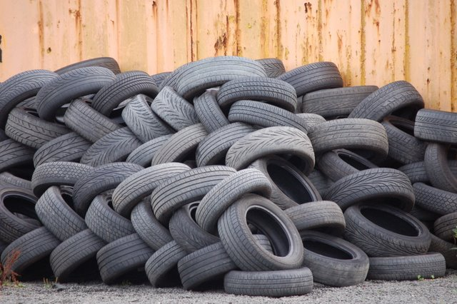 Used tyres (2) At a tyre dealer on Halbeath Road they await their fate.